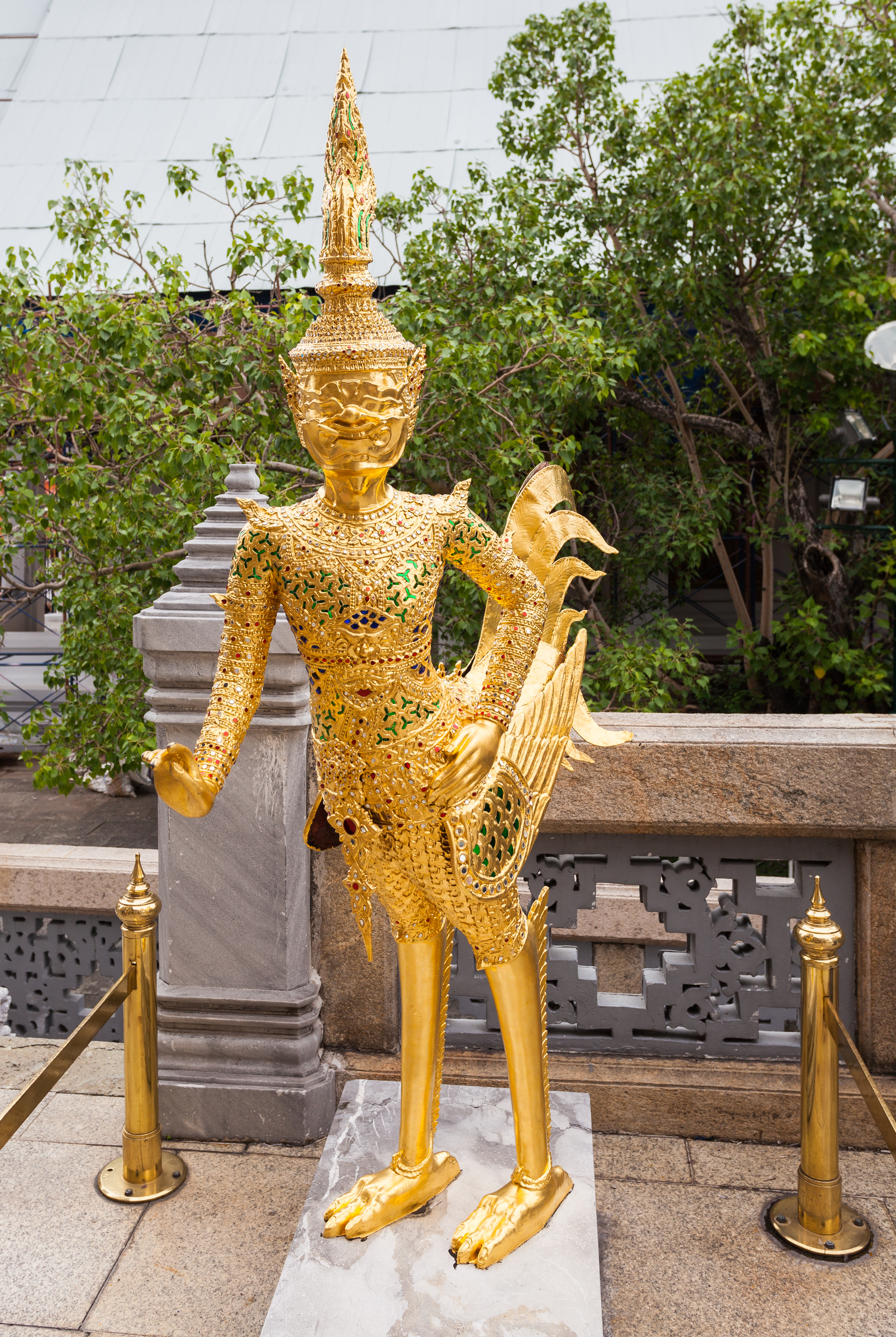 Grand Palace, Bangkok, Thailand